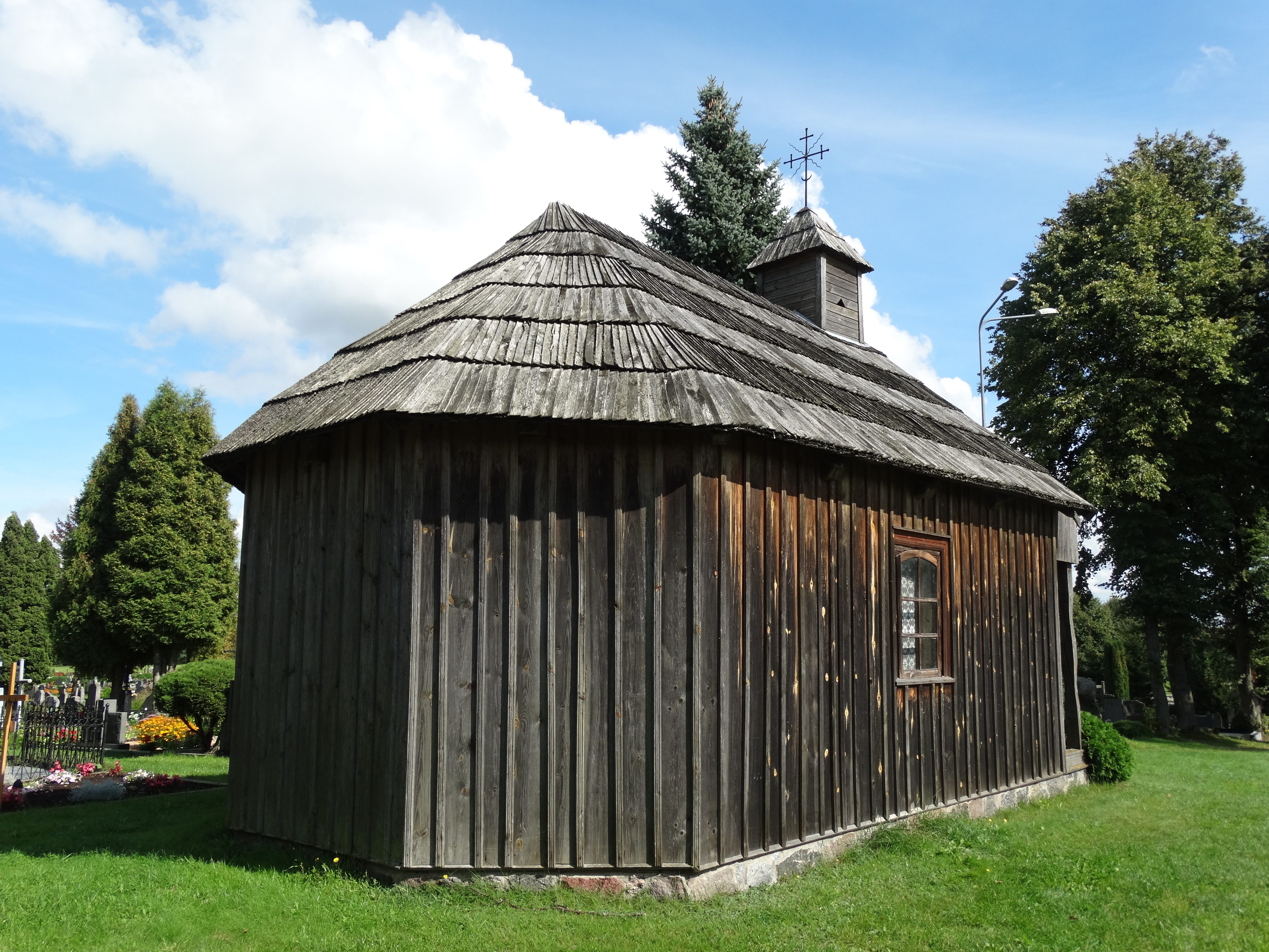 St Anne chapel in Rumšiškės, Kaišiadorys District, Lithuania